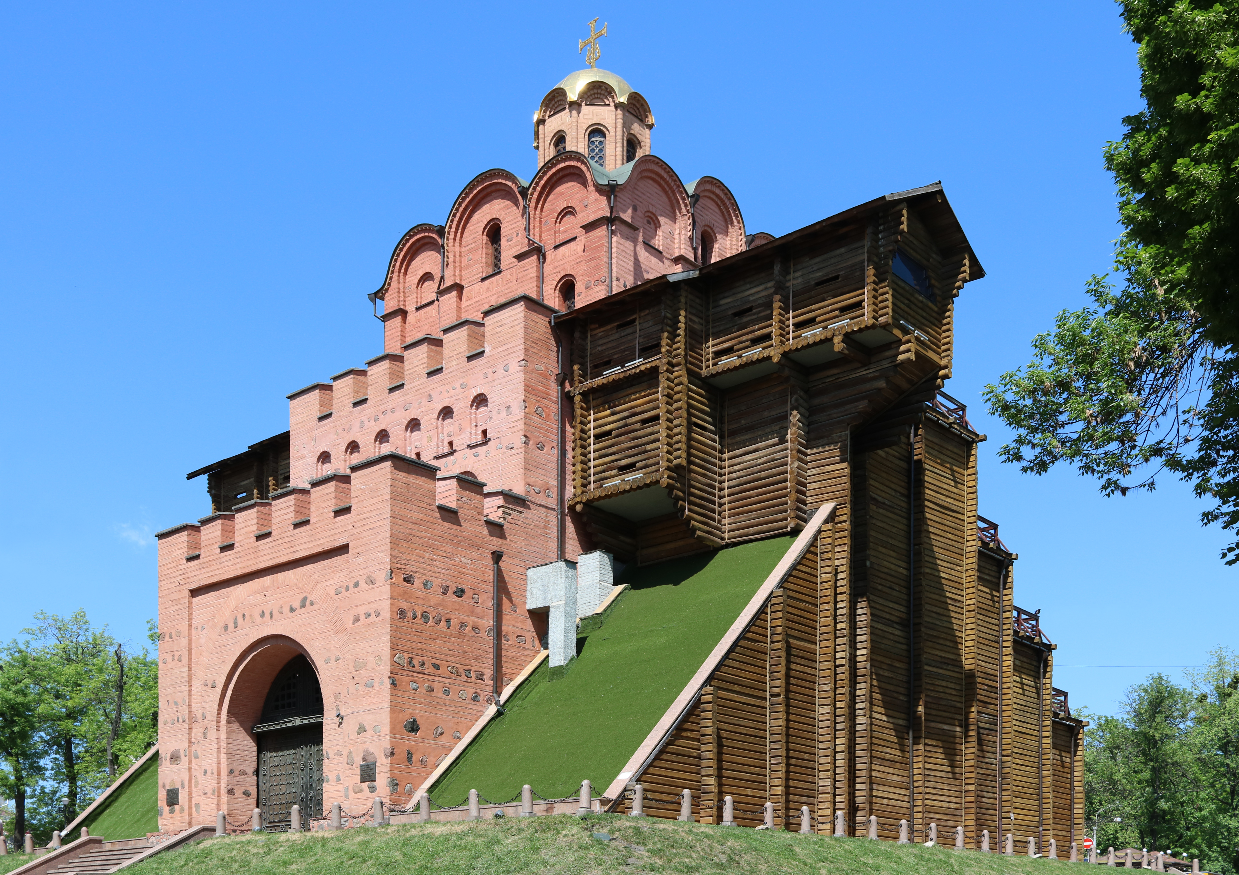 The Golden Gates of Kiev, Ukraine